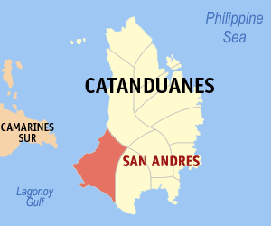 Map of Catanduanes showing the location of San Andres